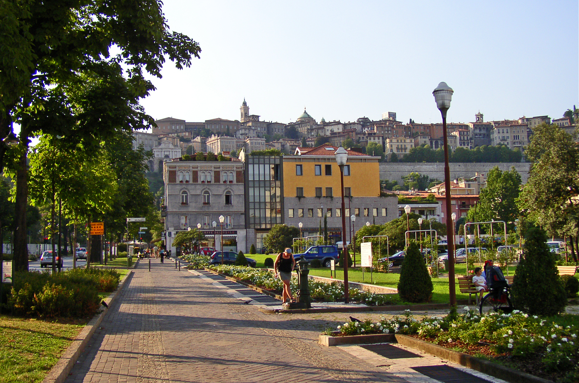 View in direction of Old Town of Bergamo (Italy) from the Street "Viale Vittorio Emanuel II"